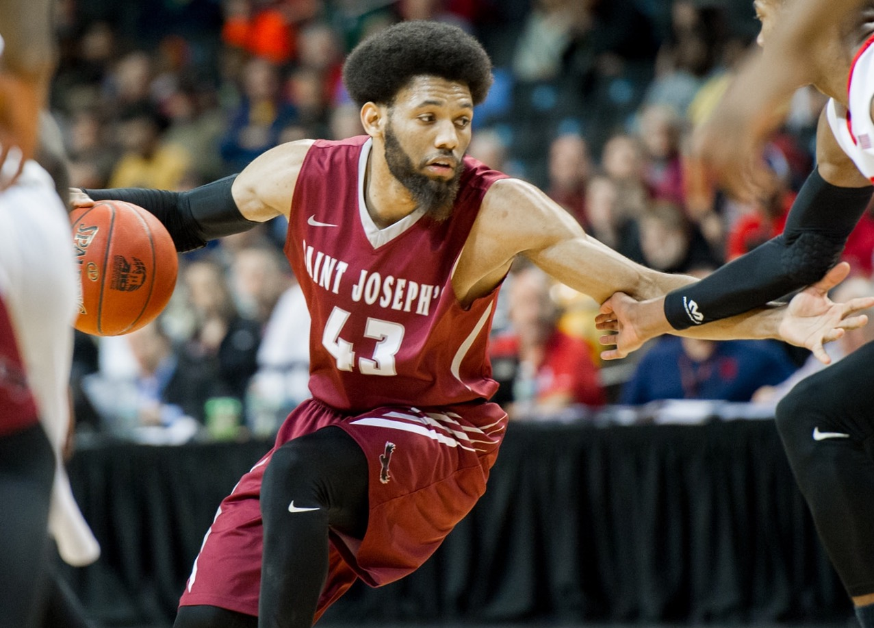 Saint Joseph's DeAndre' Bembry makes a move in the 2016 Atlantic 10 men's basketball tournament